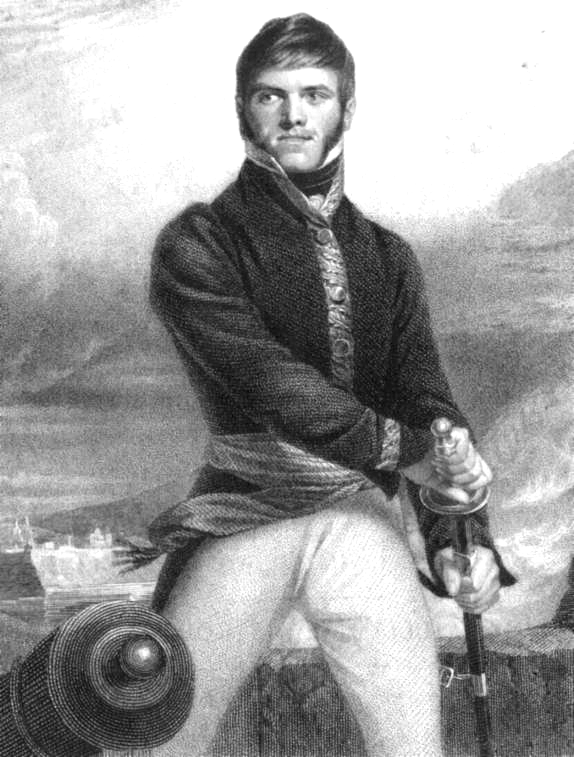 Francisco Javier Mina, Spanish soldier, Mexican revolutionary